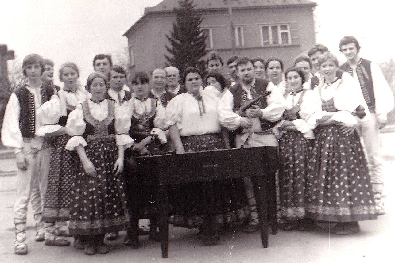 SLPT Hukvaldy